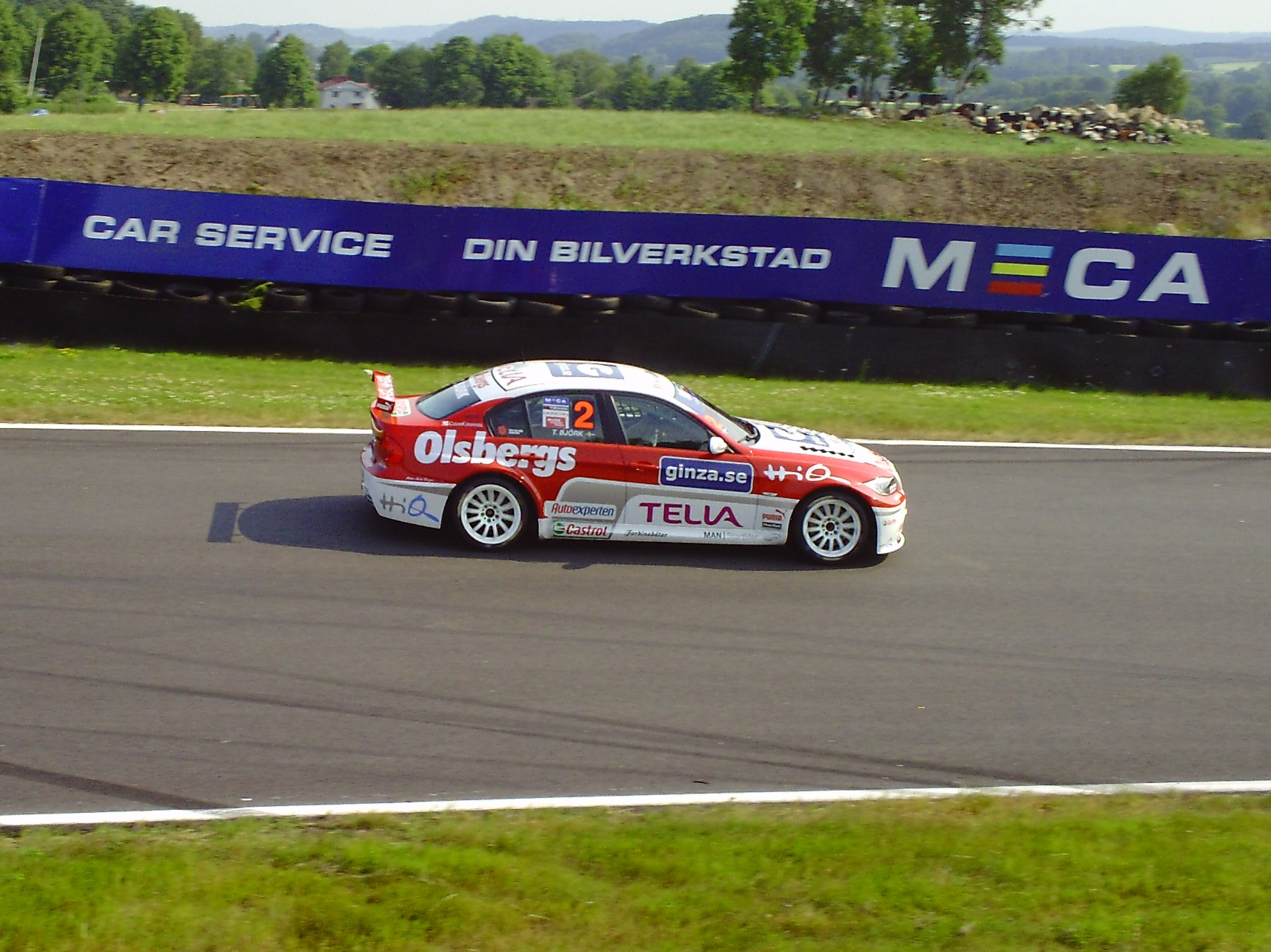 Thed Björk in a BMW 320si in Swedish Touring Car Championship at Falkenbergs Motorbana 2010.